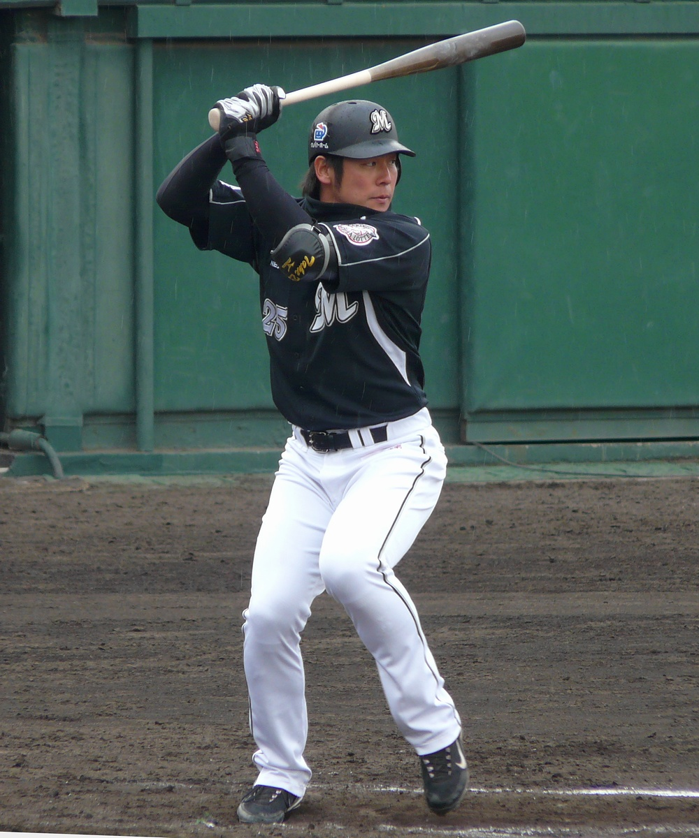 Naotaka Takehara, outfielder of the Chiba Lotte Marines, at Hyogo Prefectural Akashi Park Baseball Stadium.